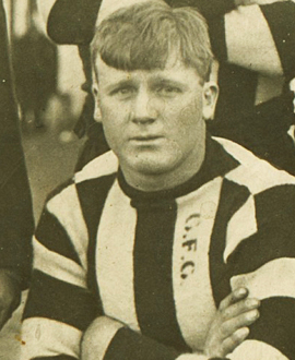 Photograph of Jim Ambler in 1912